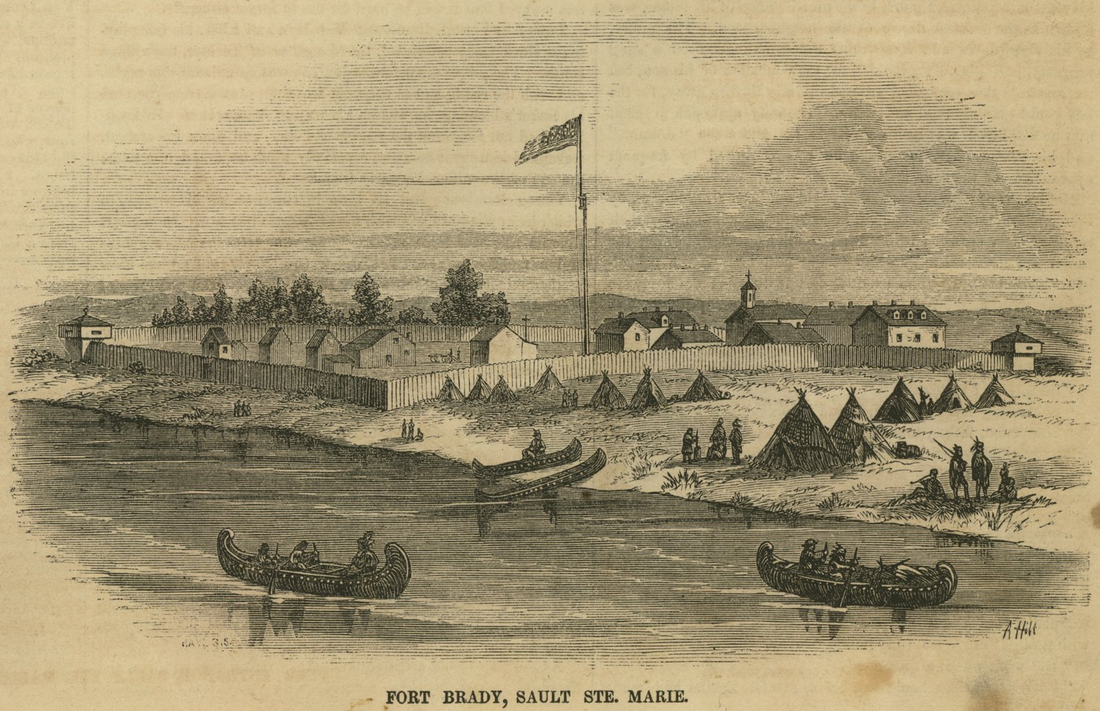 Woodcut engraving of Fort Brady, Sault Ste. Marie, MI